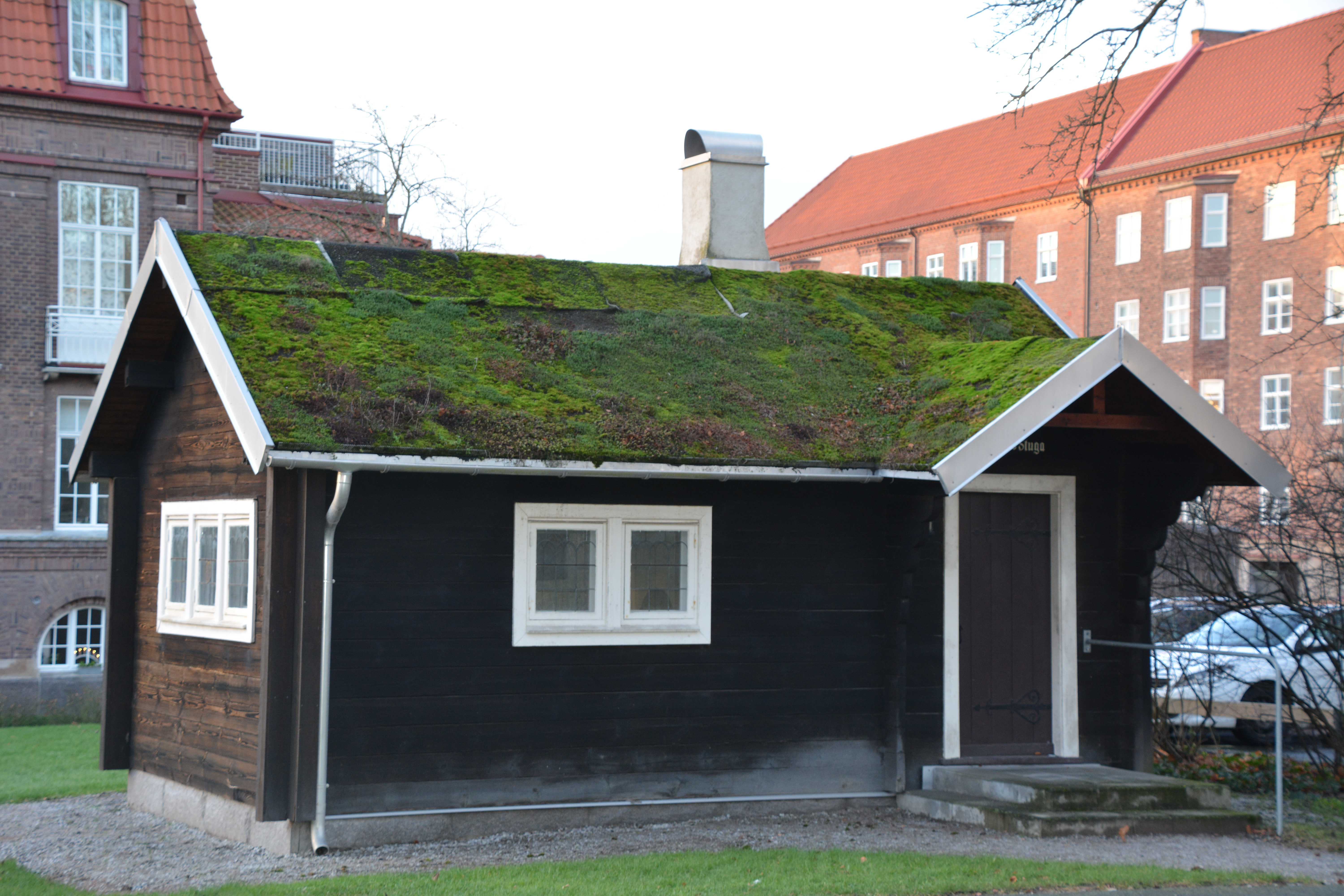 Blendas stuga, at the premises of Quennerstedtska villan in Lund, Sweden, is erected 1904 and one of the oldest playhouses in Sweden.